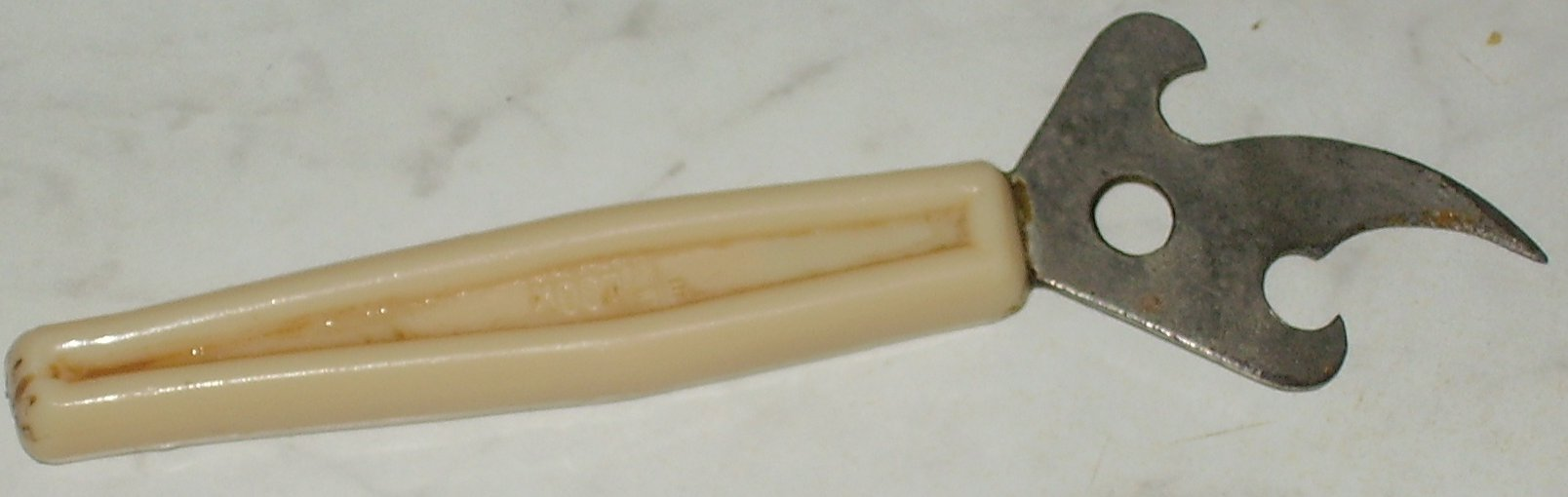 The most simple can opener in the world -- priced 30 soviet union kopeks